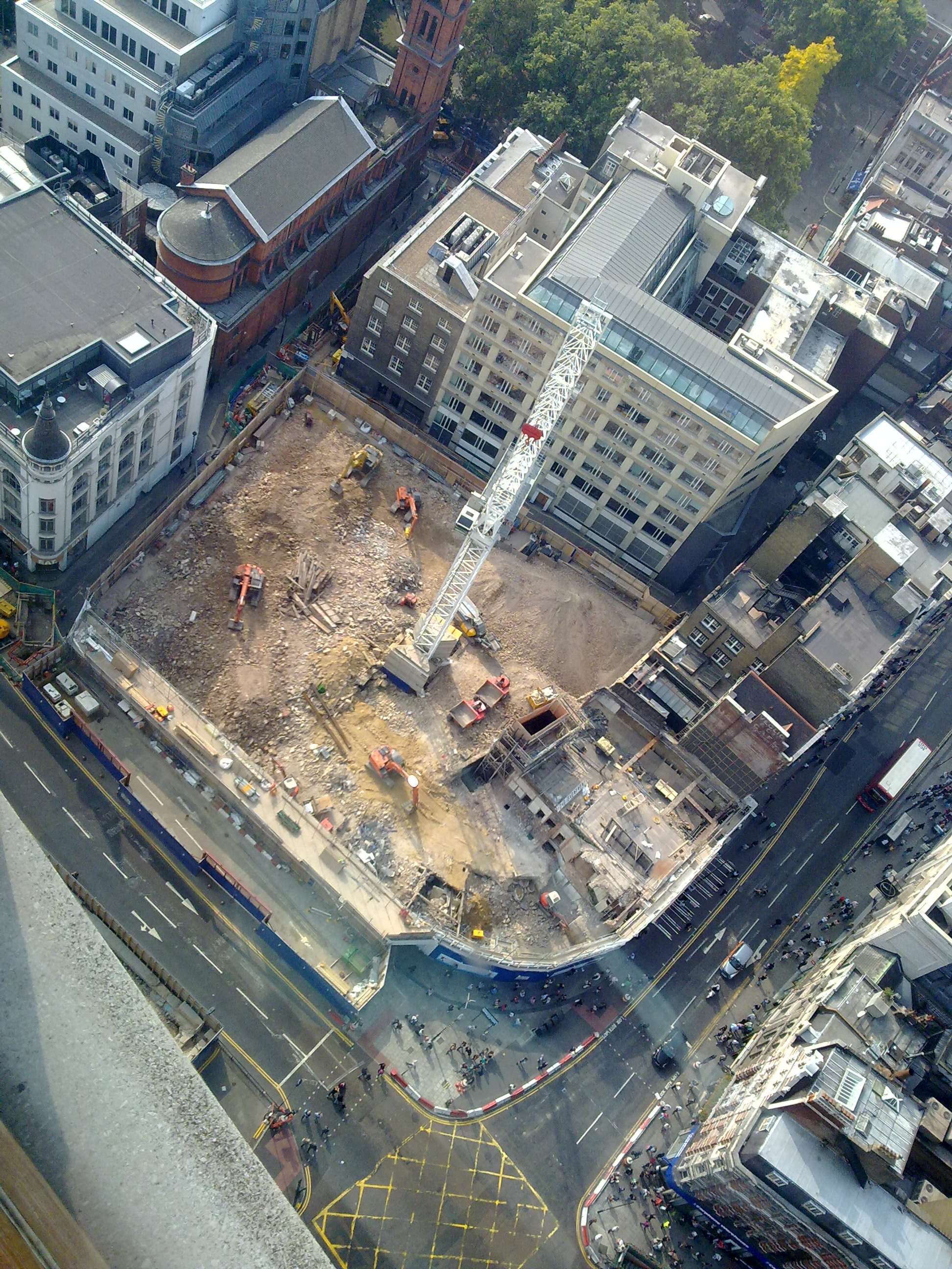 Site of the demolished London Astoria viewed from Centre Point